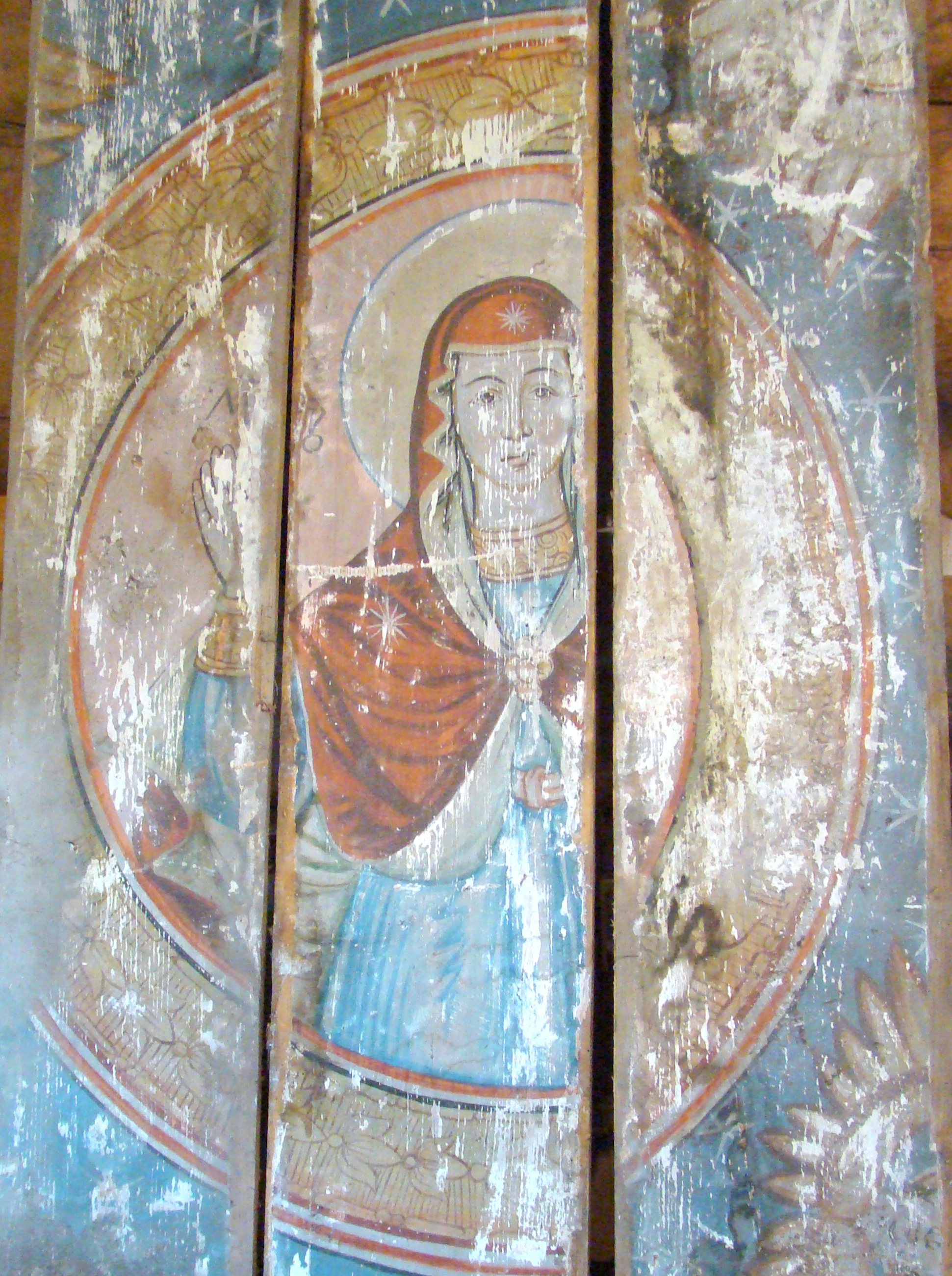 Wooden church in Ocișor, Hunedoara county, Romania